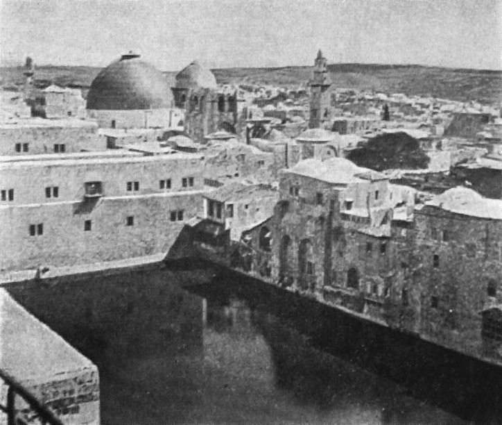 Hiskiadammen. (In the background, the domes of the Holy Sepulchre church). In the first decades of the twentieth century.